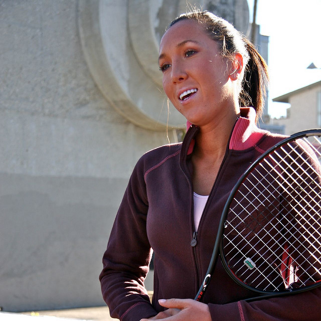 Jelena Jankovic